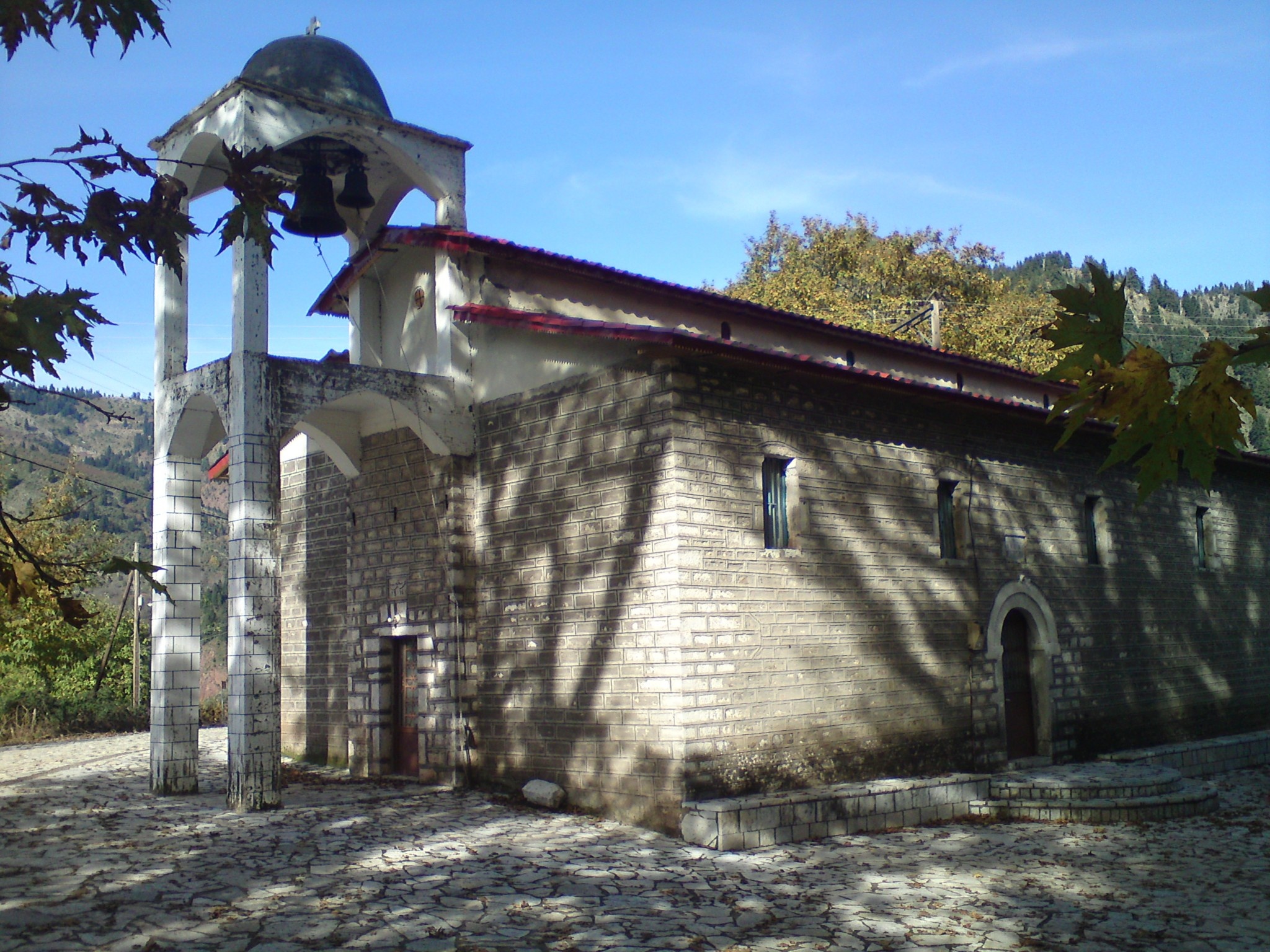 The church of Agioi Thodoroi at the main square of Trovato village, in Evritania prefecture, Greece